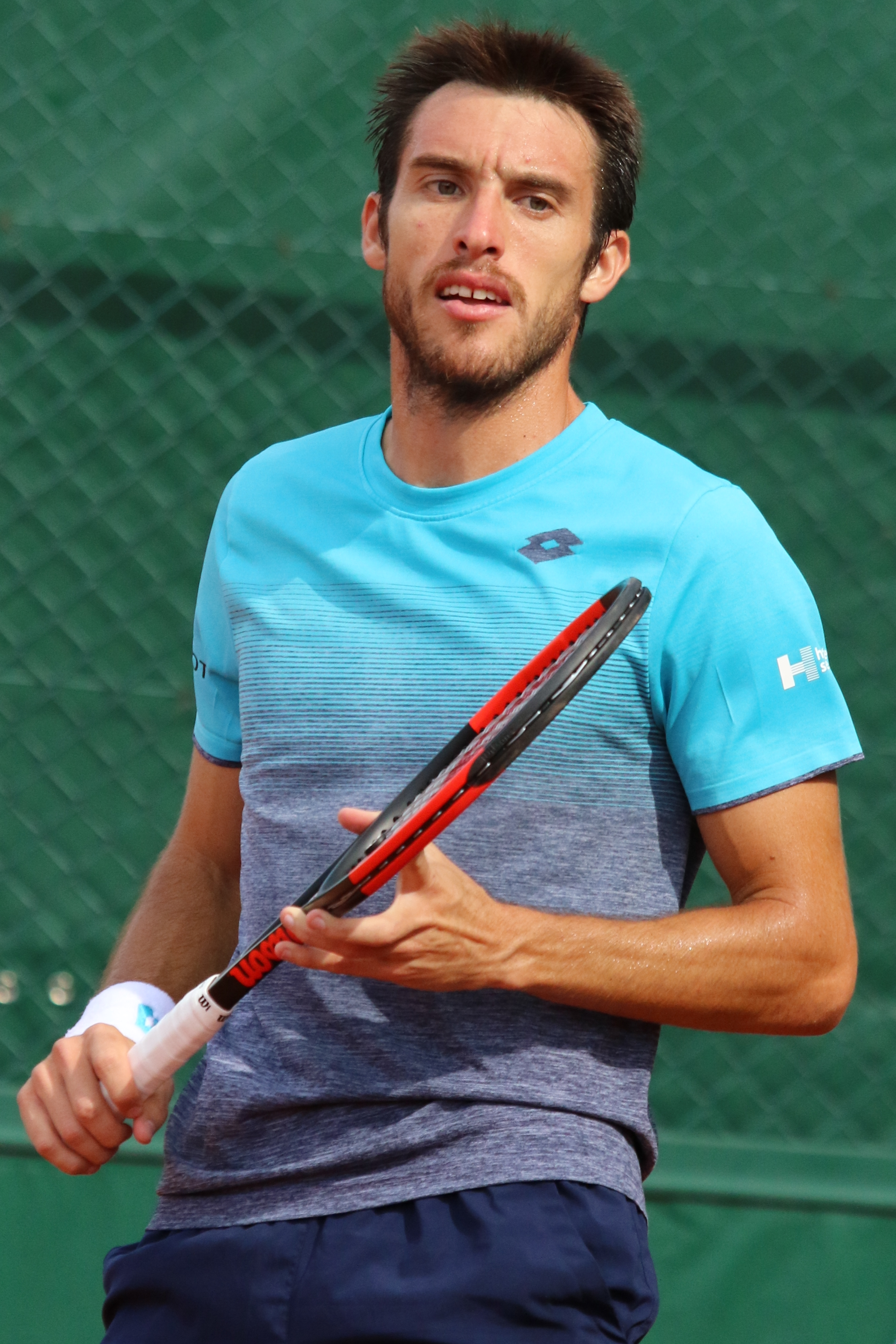 Mayer L. RG18 (3)